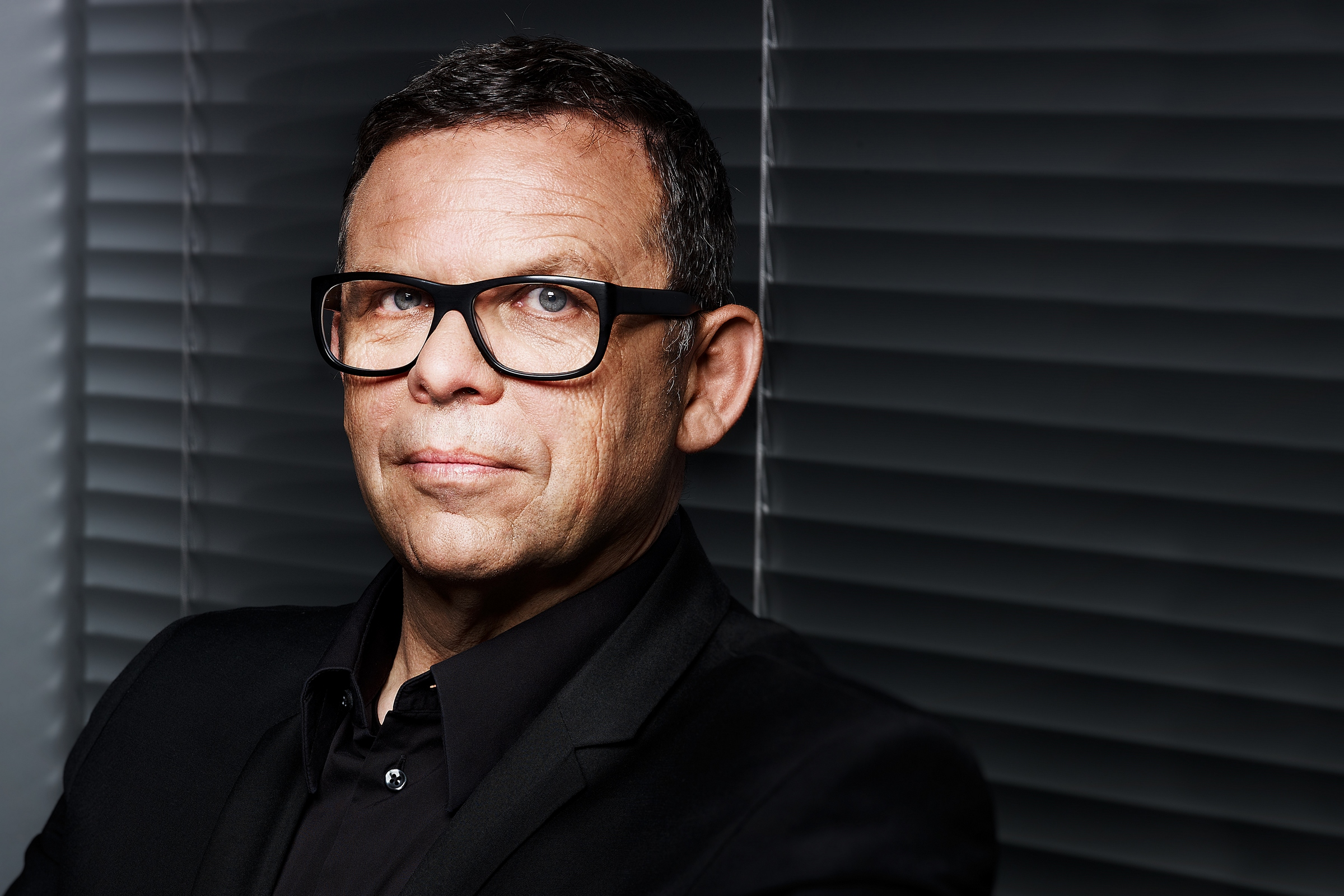 Peter Schreyer, Chief Executive Officer and Chief Design Officer of Kia Motor Corporation.